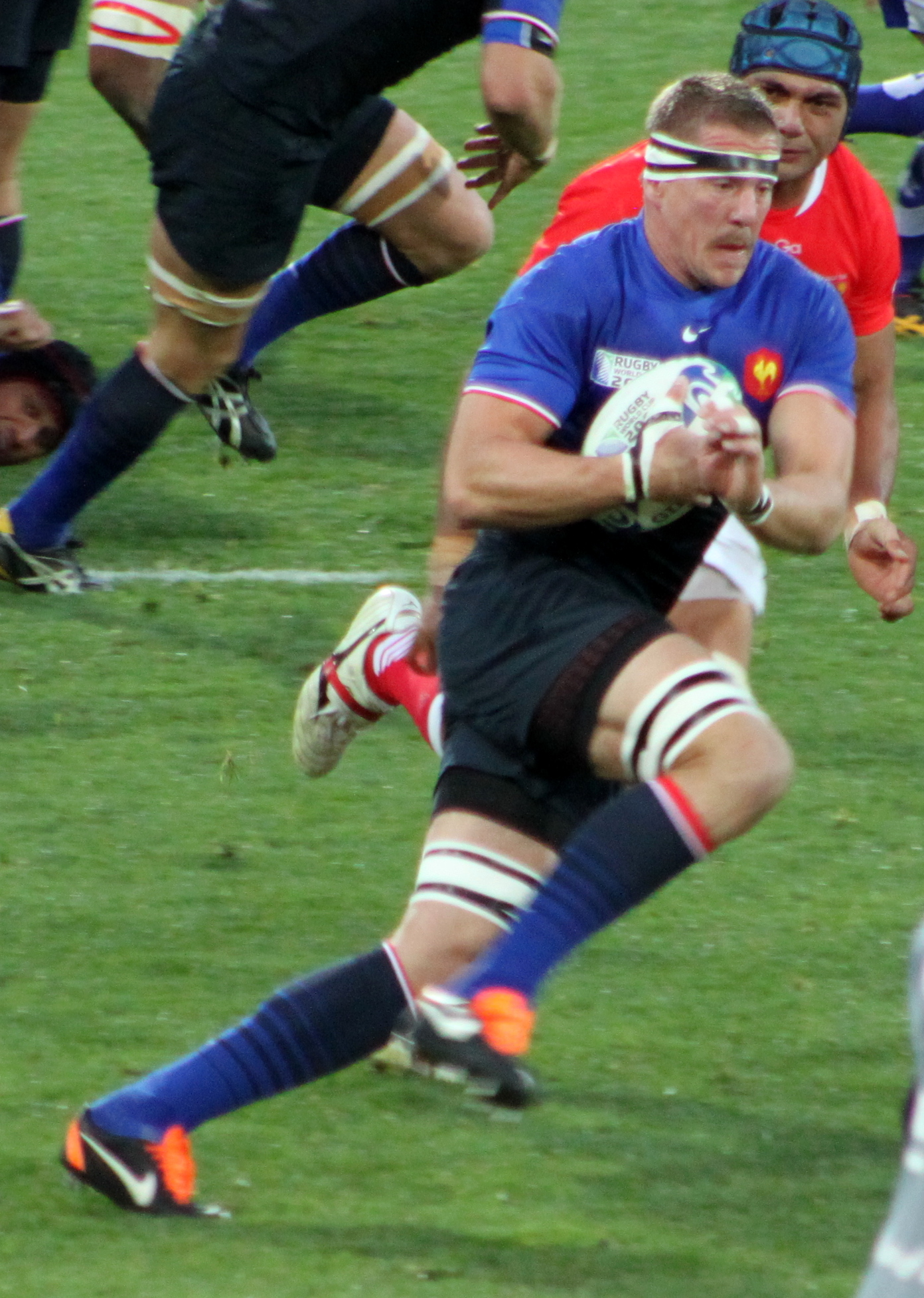 French rugby union player Imanol Harinordoquy during 2011 Rugby World Cup match against Tonga.